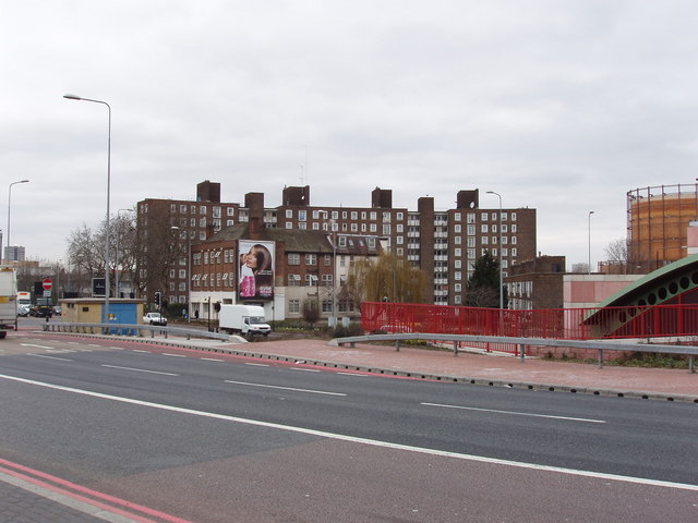 Flats in South Bromley, London Docklands. The flats are between east India Dock Road and Abbott Road. View west, with gasholders on the right of the photo.